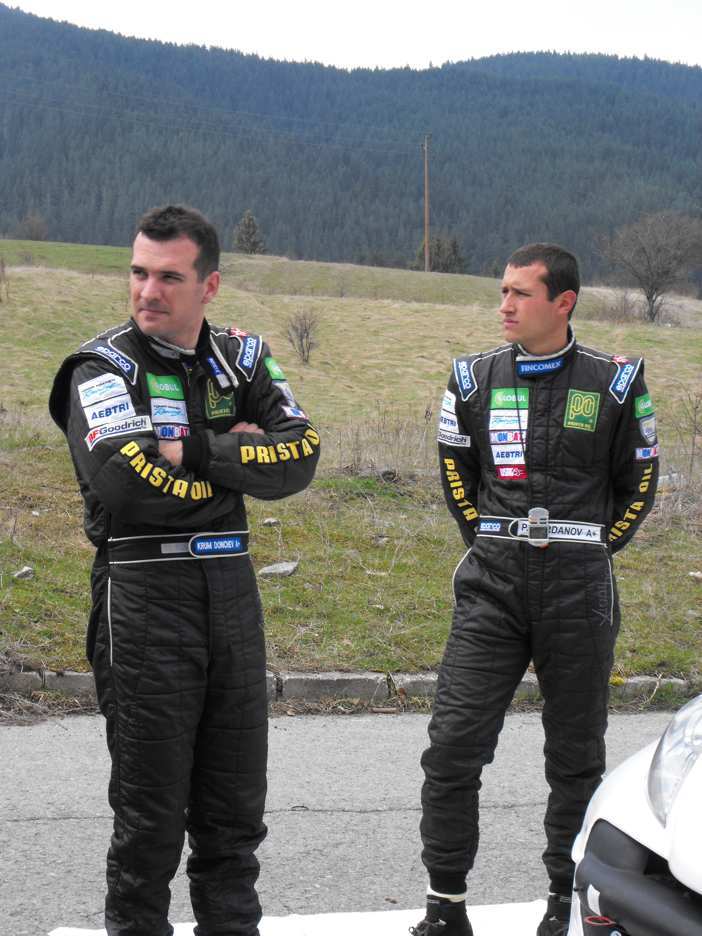 Bulgarian racecar driver Krum Donchev and co-driver Peter Yordanov